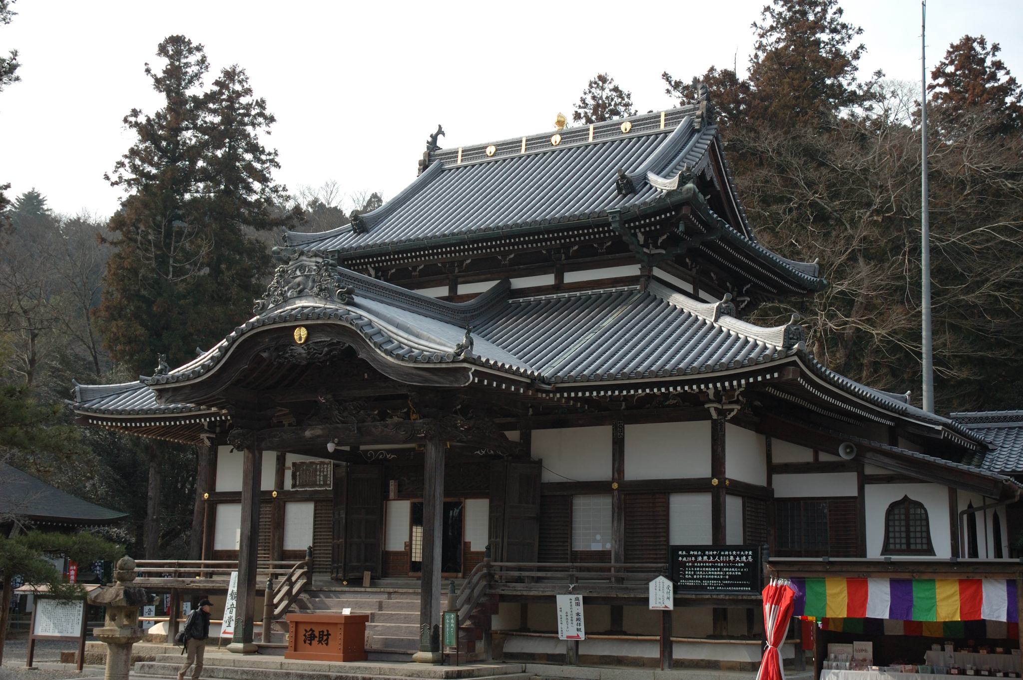 Hon-dō (Main Hall) of Tanjō-ji temple (buiit in 1695, Japan's national important cultural property) Kume-nan Town, Okayama, Japan